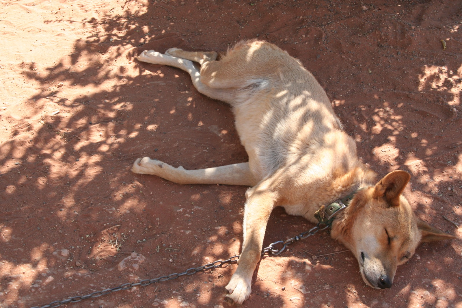 This was at a camel farm. If you look back in my stream you will see that a dog my family used to have looked very much like this dingo.